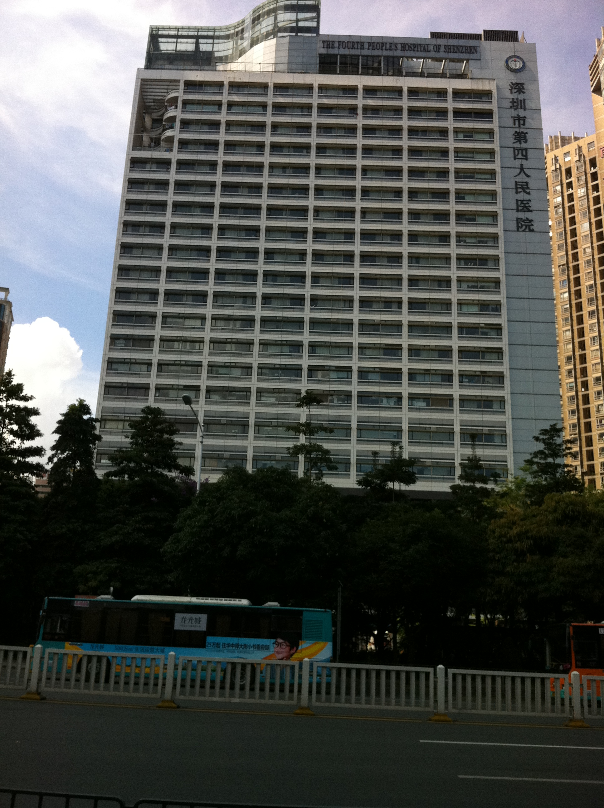 Inpatient Department Bulding, Shenzhen Futian Hospital